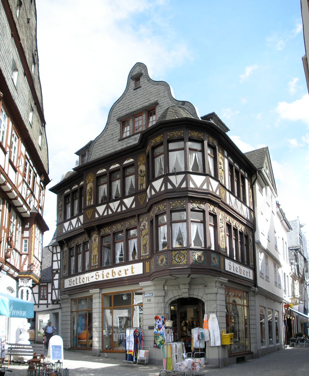 Old timber framed building at Barfüsserstraße in the old towne of Limburg